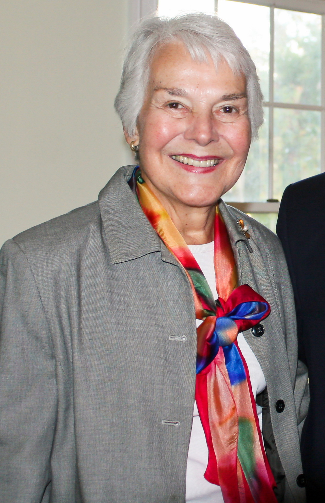 VA Senator Patricia S. Ticer, 30th district